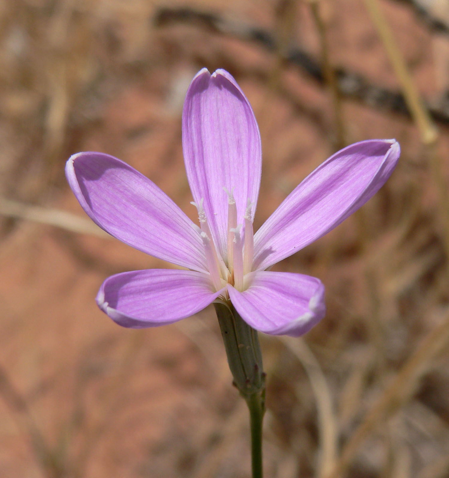 Lygodesmia grandiflora var. dianthopsis in Pine Creek Canyon, Red Rock Canyon, Spring Mountains, southern Nevada (NNPS field trip)